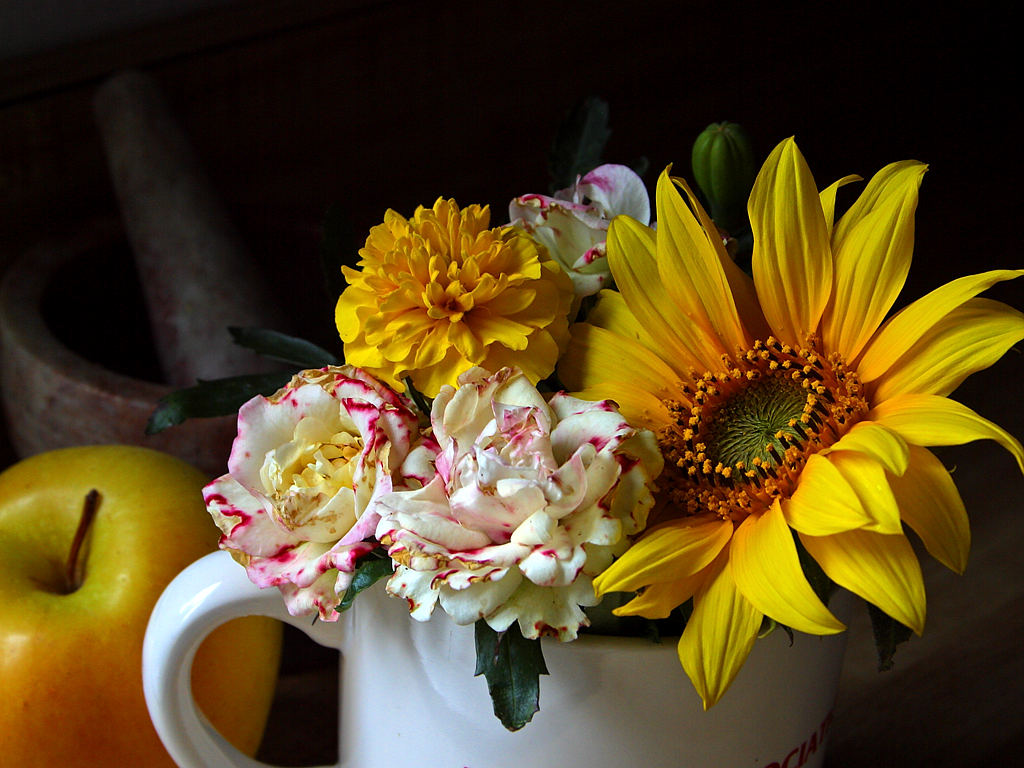 Some arranged flowers. Uploaded from